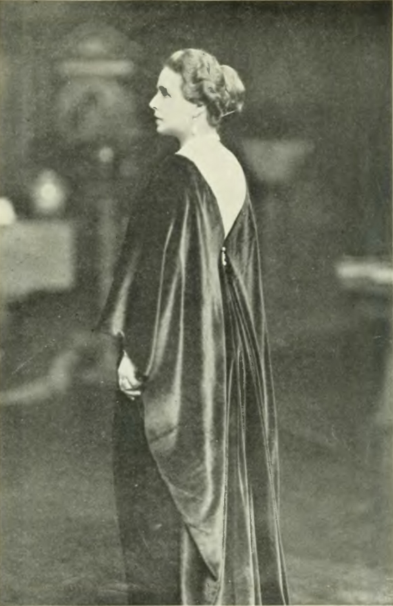 Marie of Edinburgh, Queen of Romania